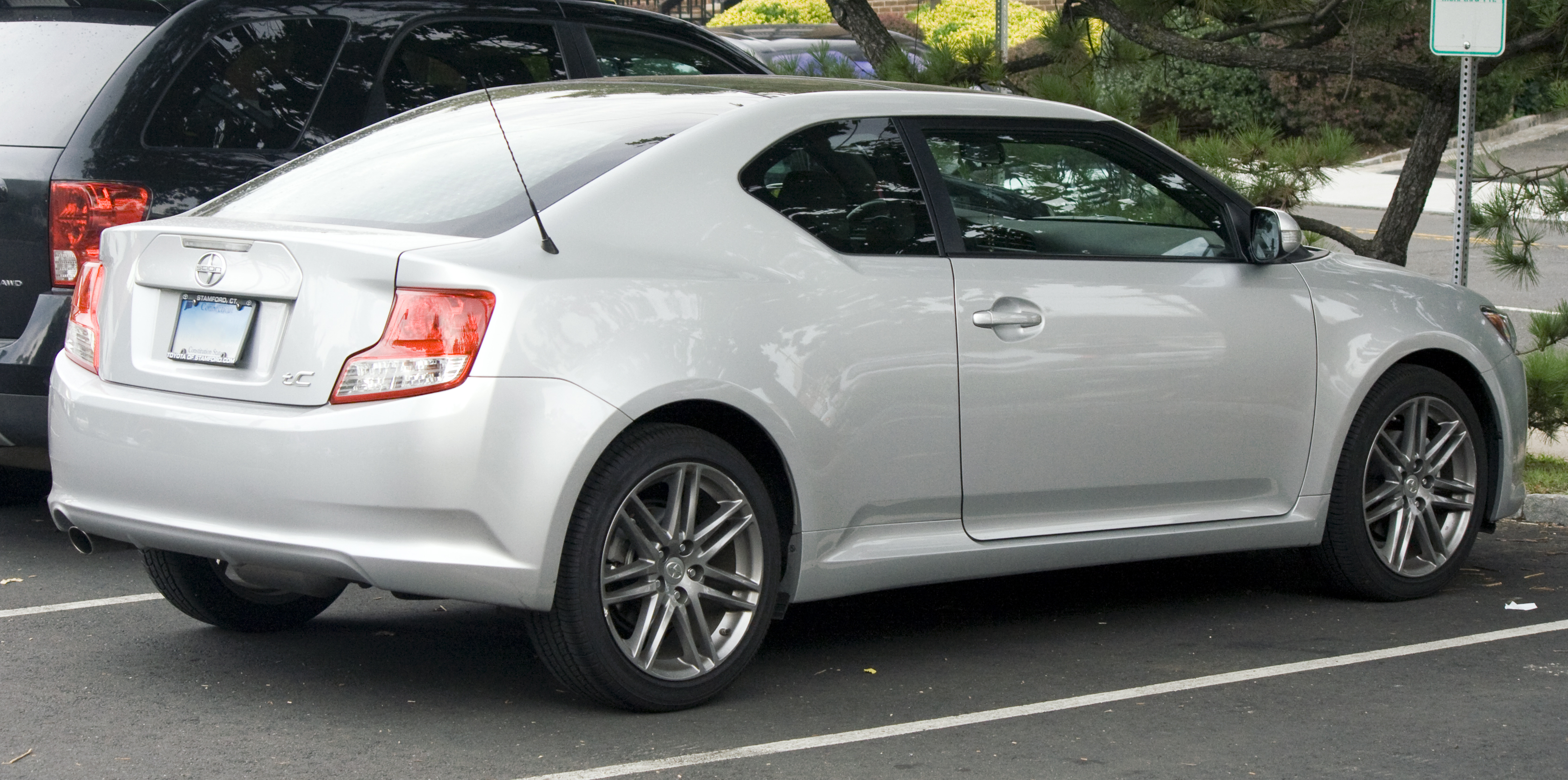 Rear view of second gen Scion tC seen in Greenwich, CT